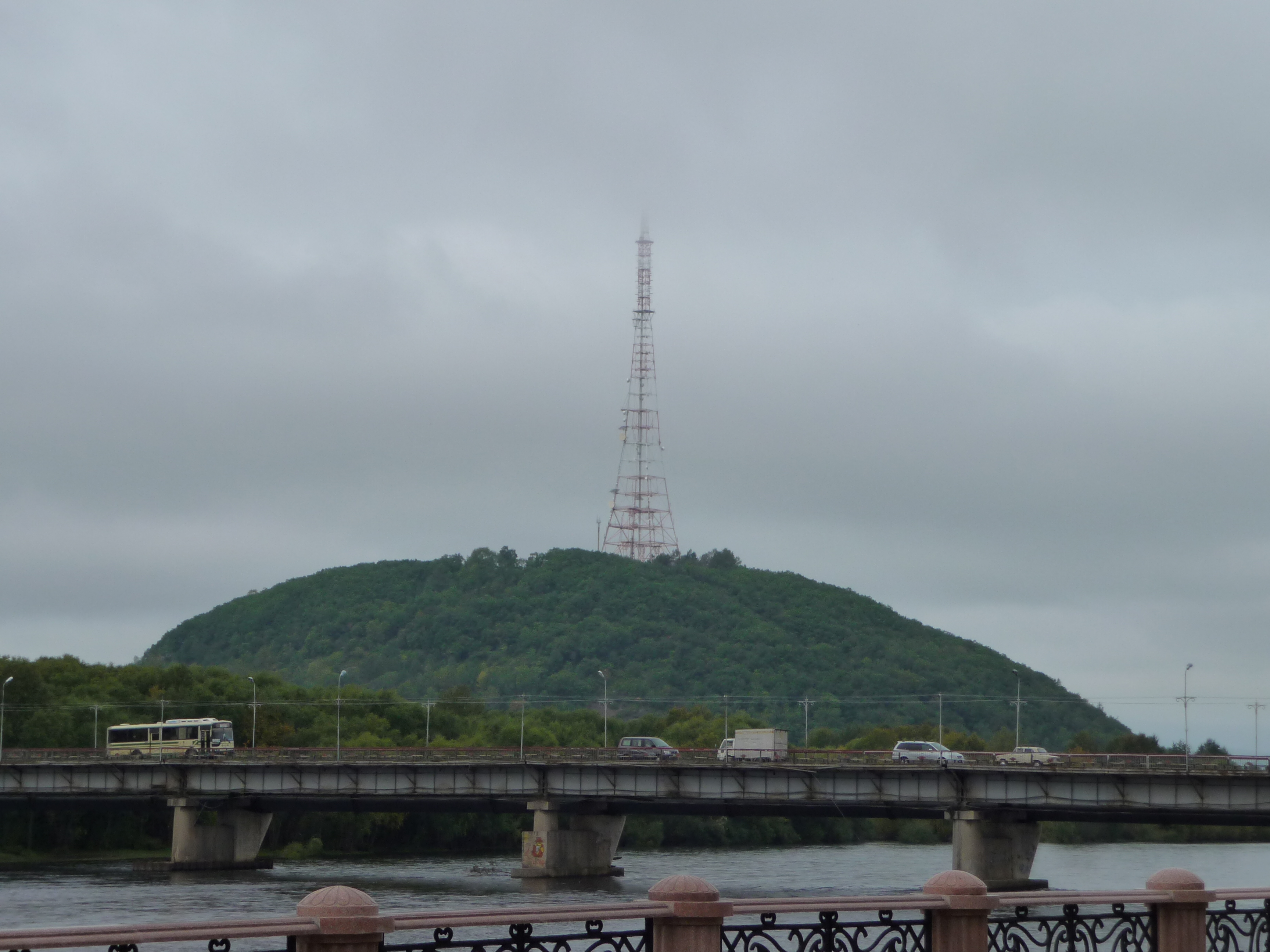 The Tikhonkaya Hill in Birobidzhan (Jewish Autonomous Oblast, Russia).